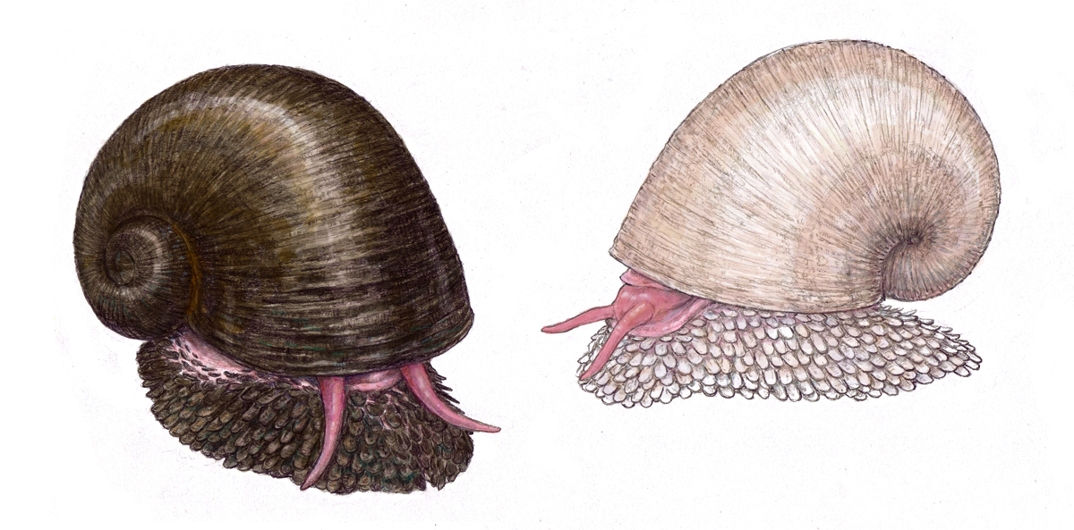 two varieties of Scaly-foot gastropod